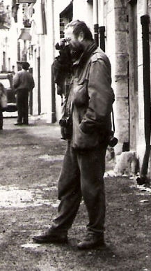 Josef Koudelka photographed in Collesano (Sicily) - Easter 1987